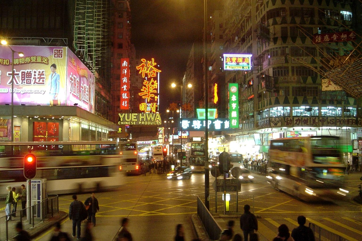 Intersection of Jordan and Nathan roads (Tsim Sha Tsui, Kowloon, Hong-Kong)